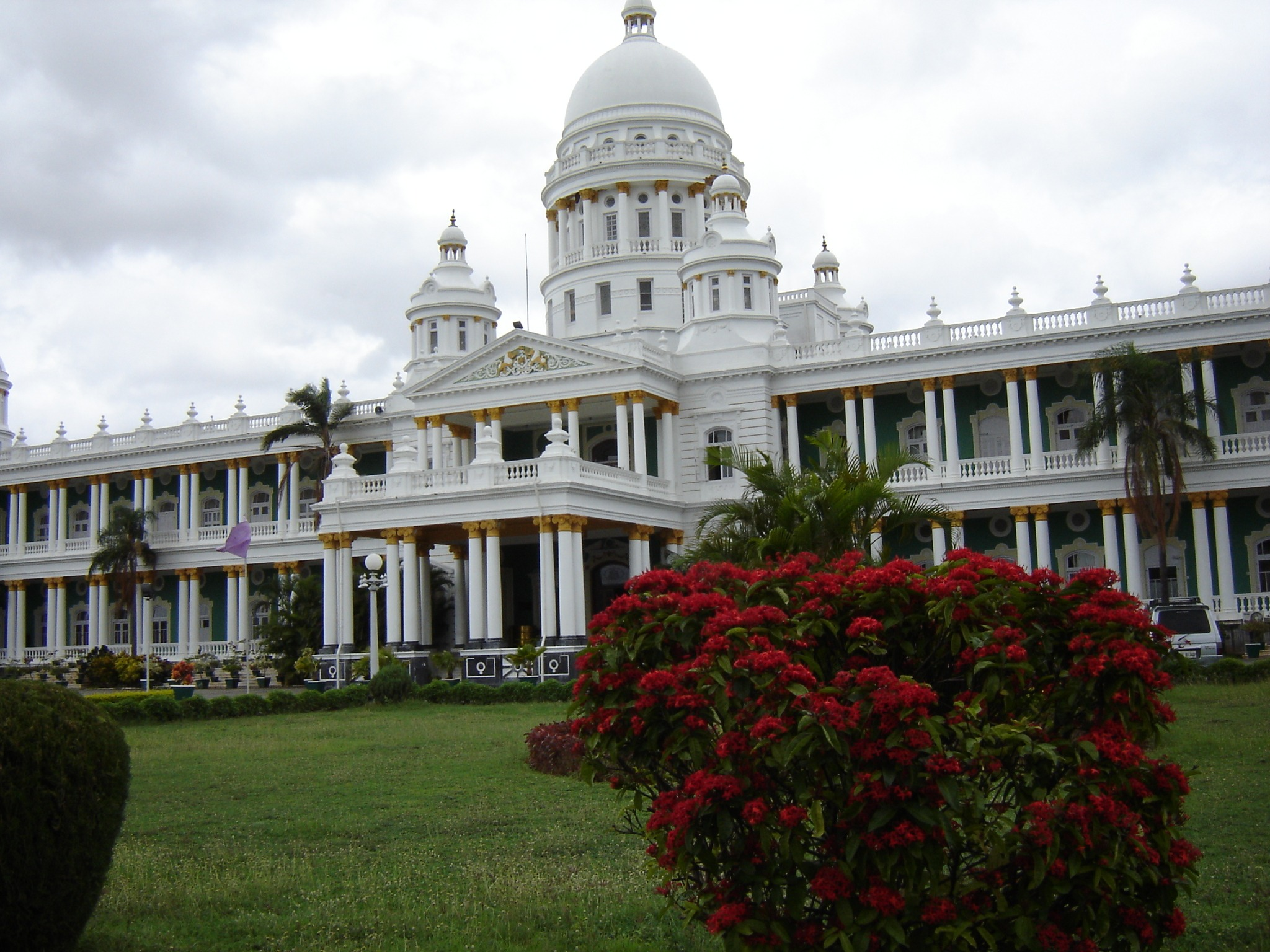 Lalitha Mahal Palace on 23 June 2007